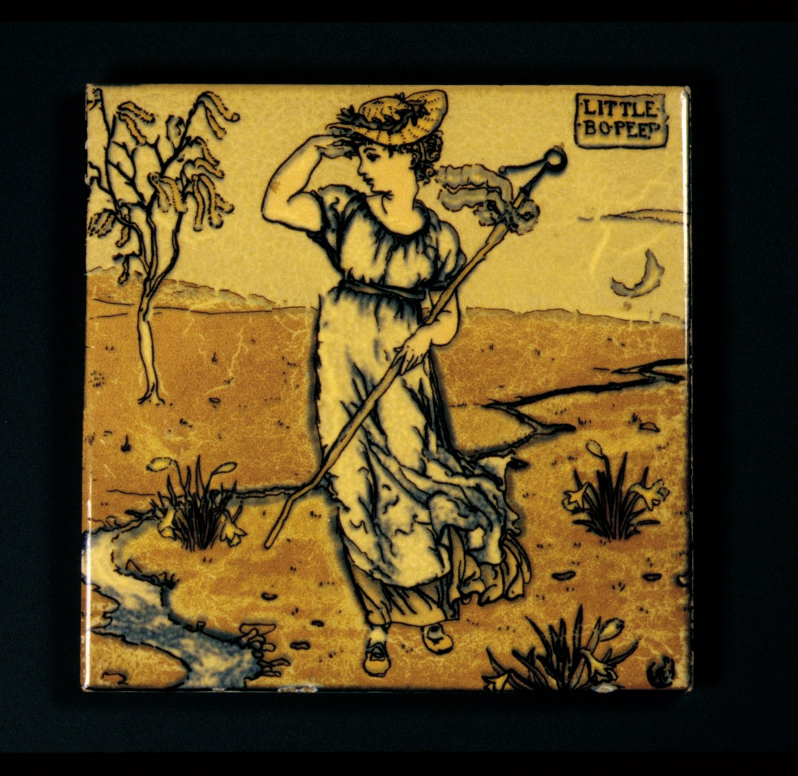 American; Tile; Ceramics